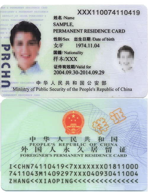 People's Republic of China Foreigner's Permanent Residence Card